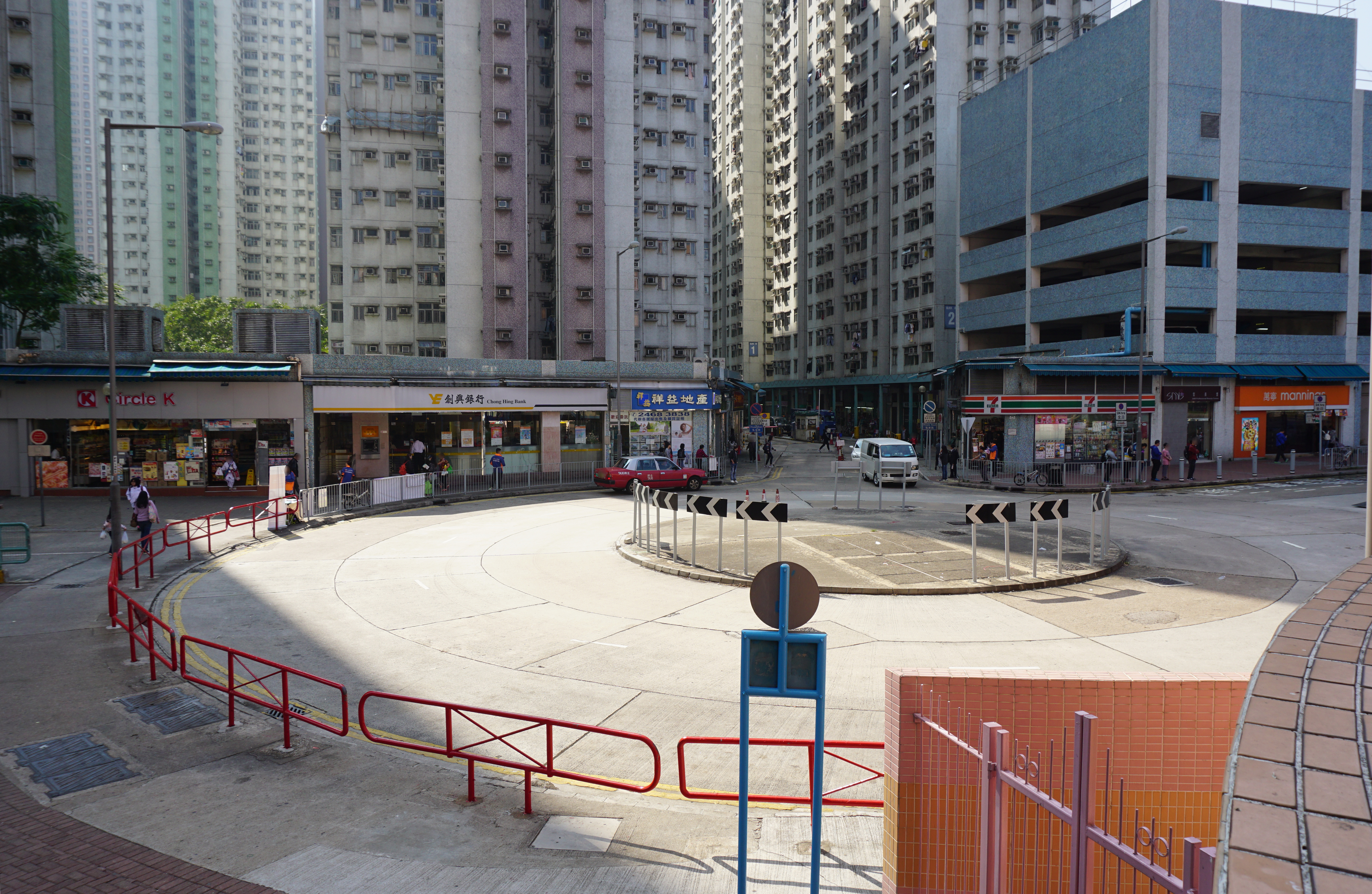 Glorious Garden in Tuen Mun, Hong Kong.